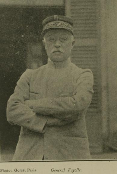 WWI Photograph